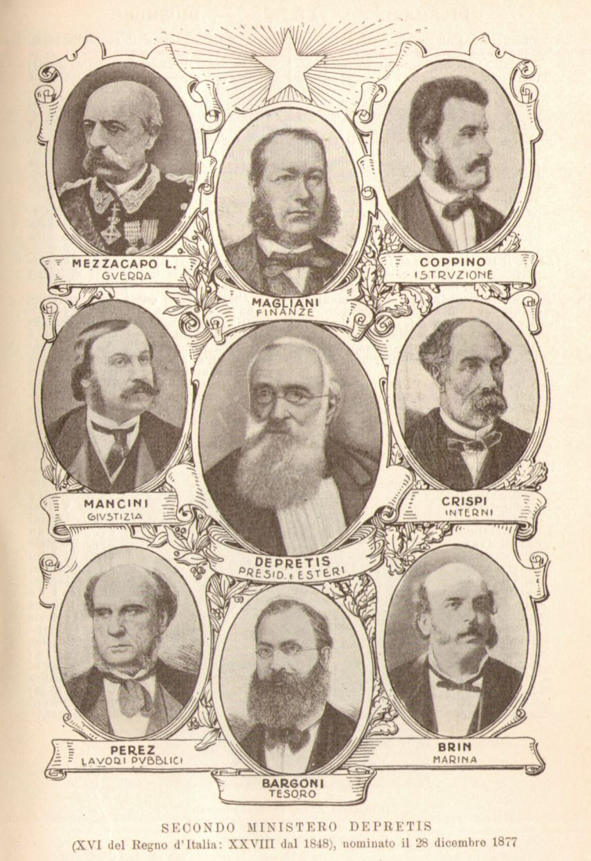 Ministers of the second Italian Government Agostino Depretis (1813-1887)